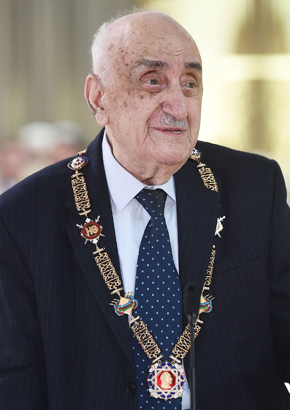 Ilham Aliyev attend ceremony to mark 90th anniversary of Khoshbakht Yusifzade